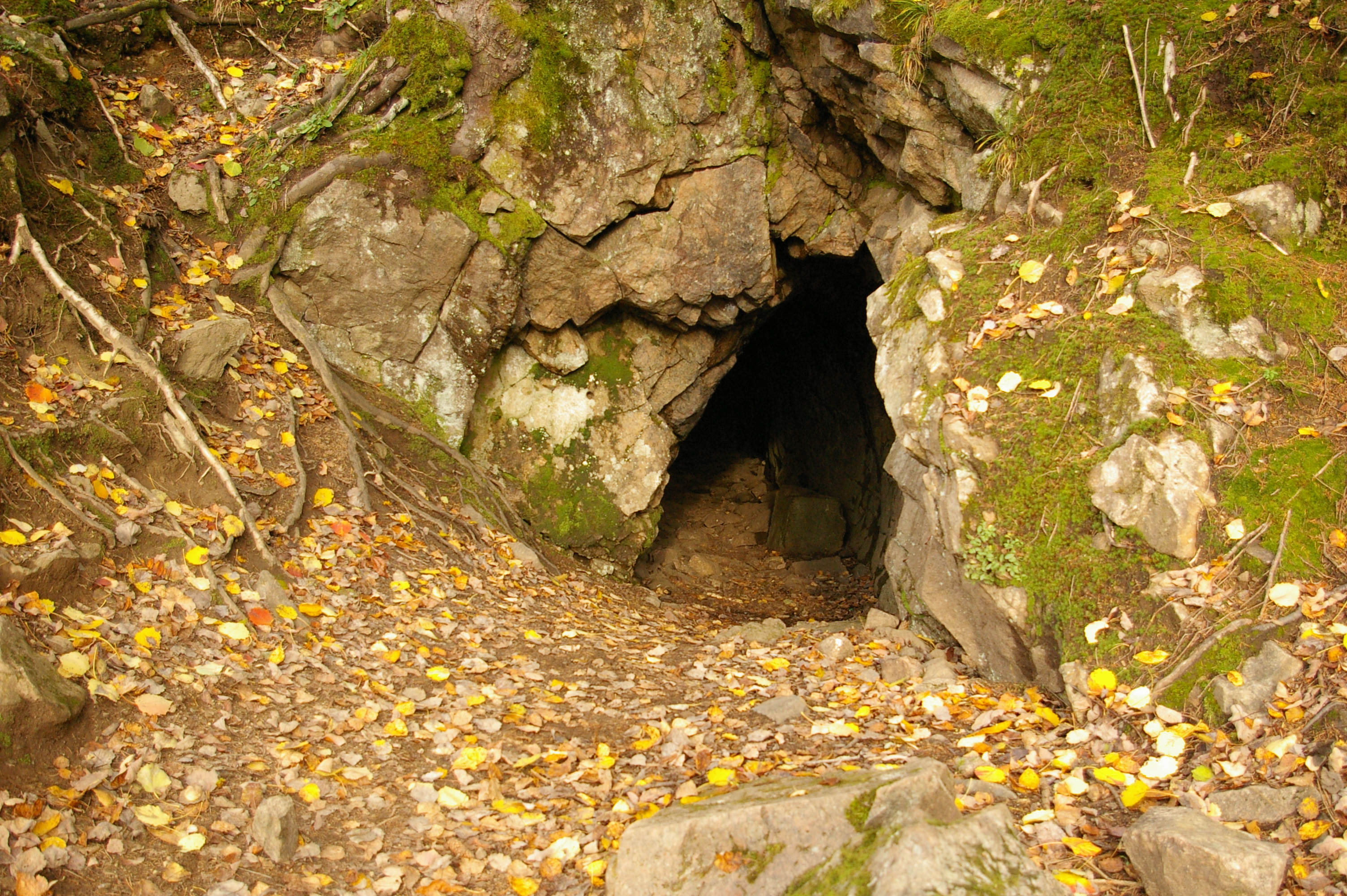 An adit at the Glaser mine